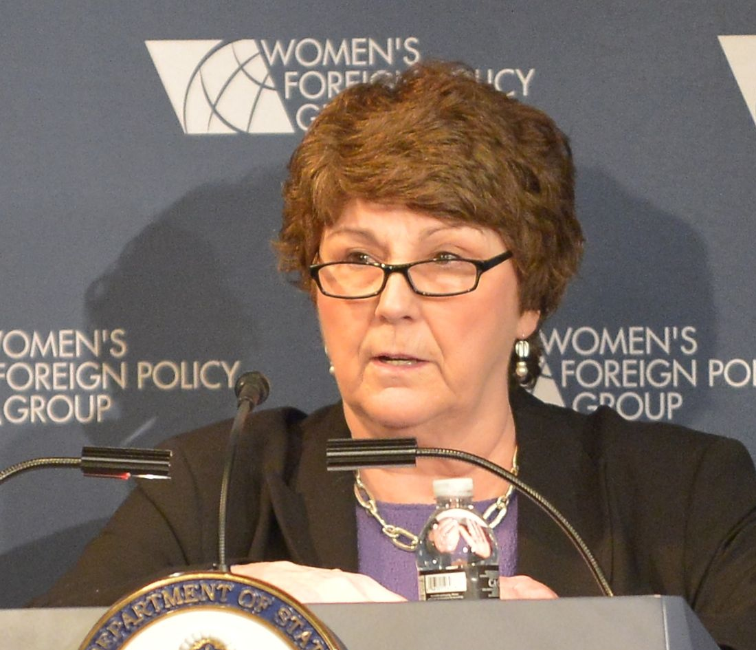 Washington Post Senior National Security Correspondent Karen DeYoung introduces U.S. Secretary of State John Kerry to address the Women's Foreign Policy Group Conference in Washington, D.C., on November 29, 2016. [State Department photo/ Public Domain]